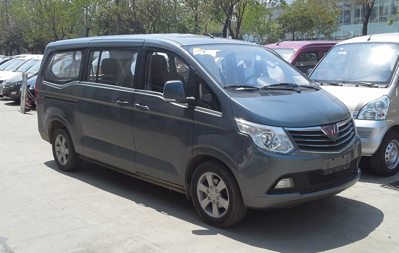 Wuling Zengcheng photographed in Nanjing, Jiangsu province, China.